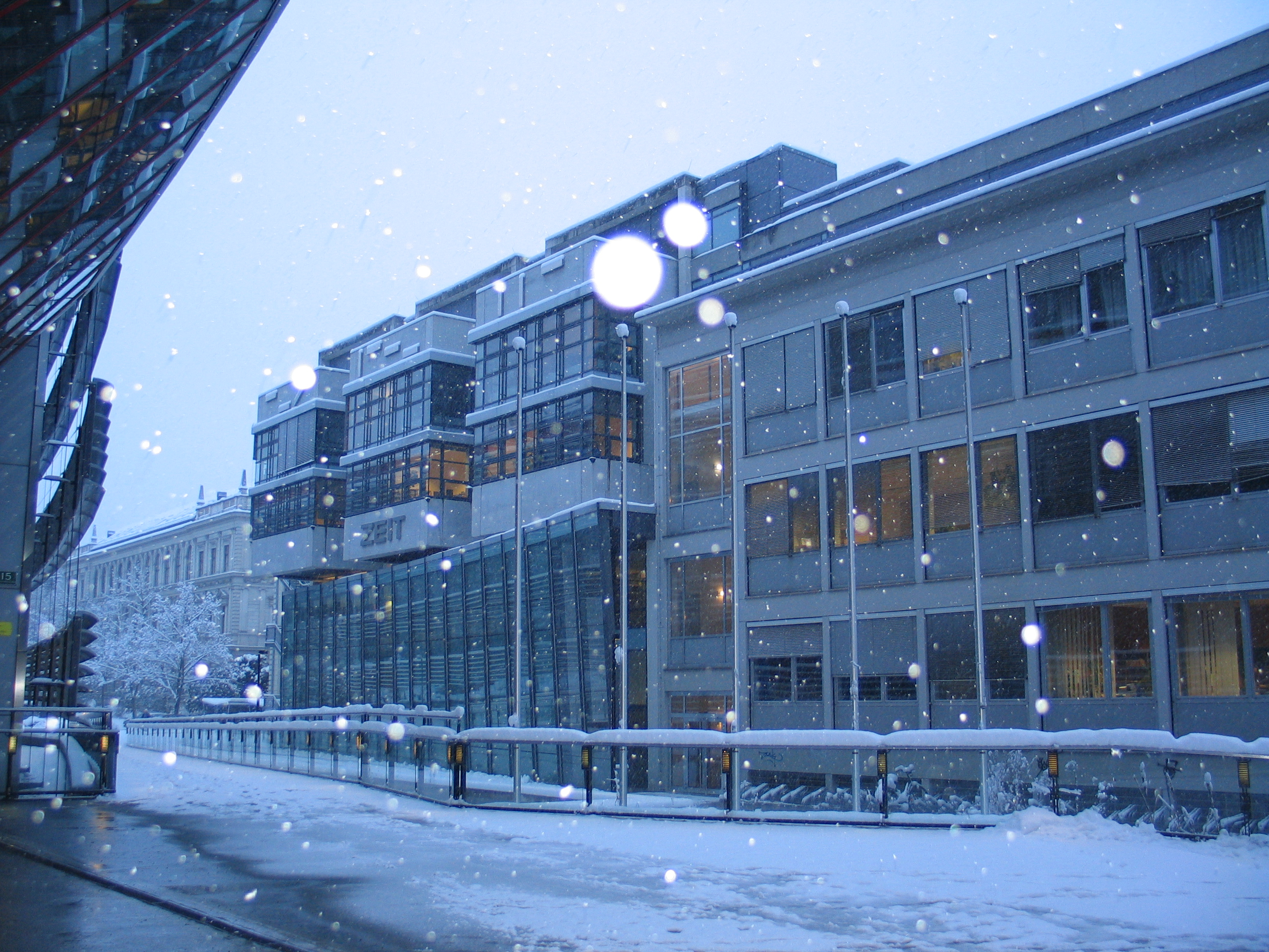 Snow falling on the campus of the University of Graz, Austria, at dawn on 27 Dec 2005. Picture taken and uploaded by Dr. Marcus Gossler.